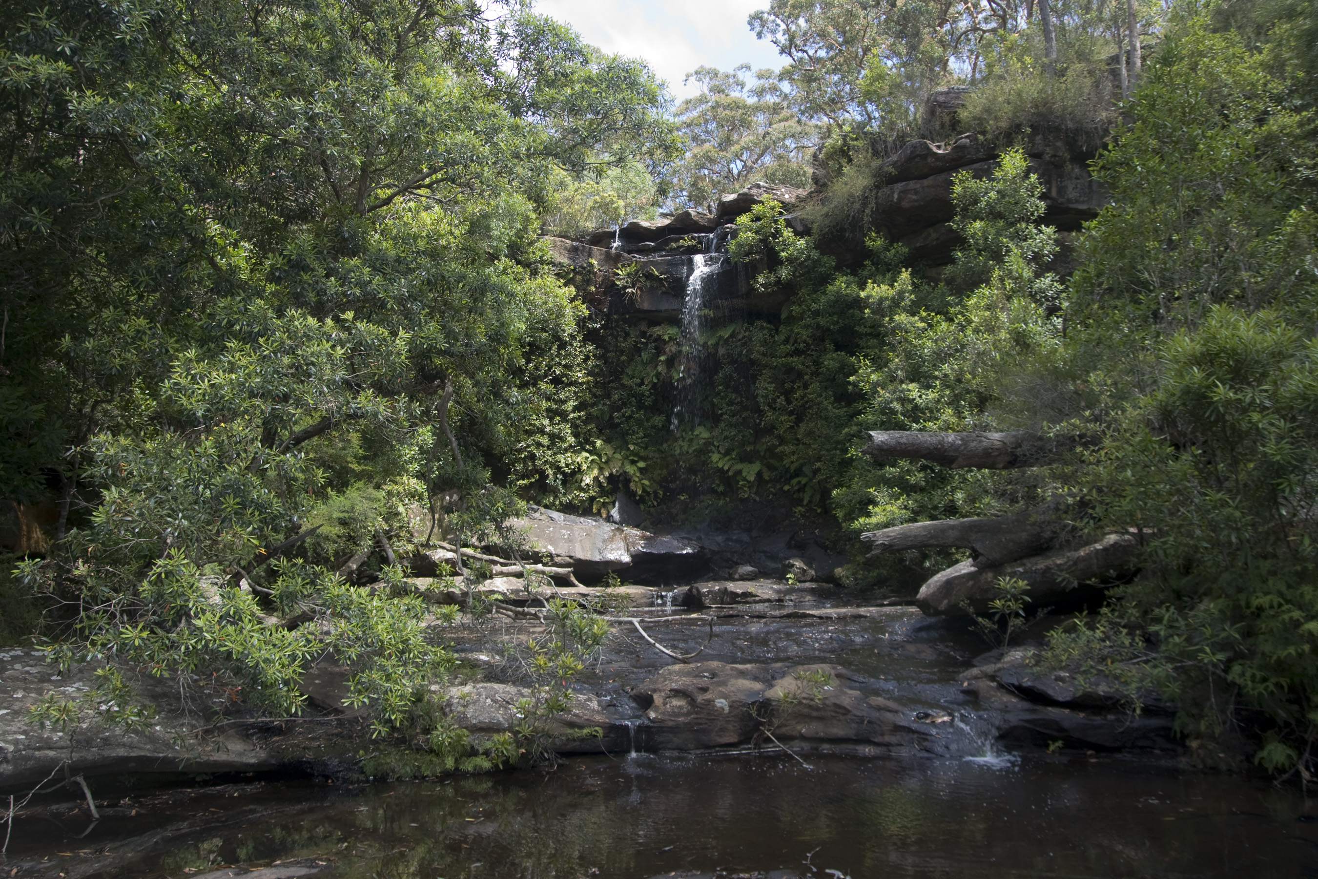 Royal National Park NSW 2233, Australia